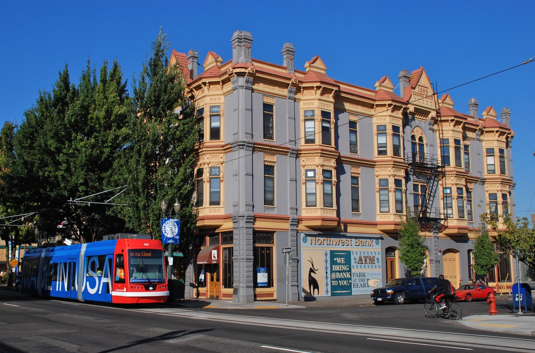 The historic Barber Block (built 1889–90), on S.E. Grand Avenue in Portland, Oregon, is listed on the U.S. National Register of Historic Places. In this 2012 photo, the building is being passed by United Streetcar-built car 15 of the Portland Streetcar system, in service on the then-new Eastside Line (or Central Loop).